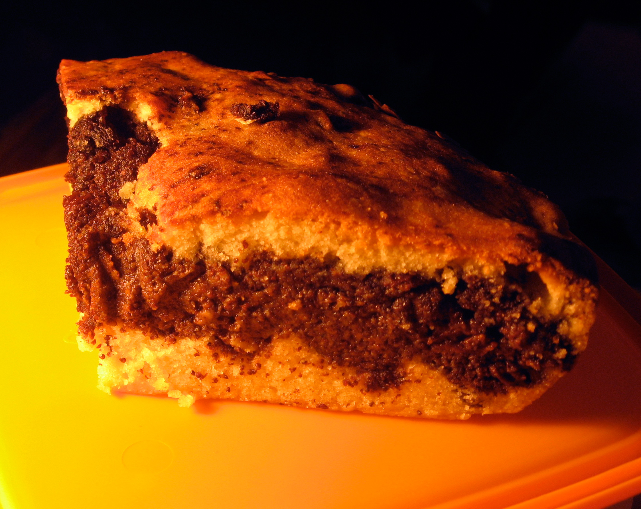 Slice of a Makowiec cake. Polish cuisine.